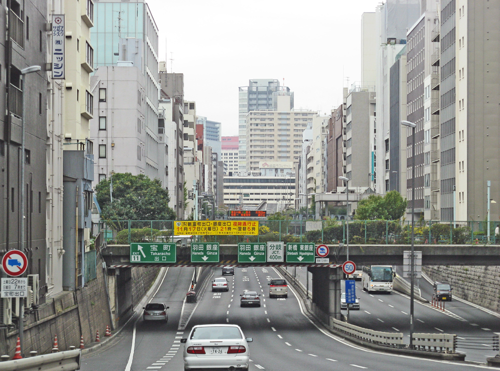 I took this photo.